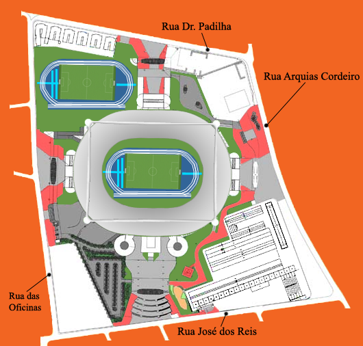 Estádio Olímpico João Havelange — in Rio de Janeiro city. A venue for the 2016 Olympics.